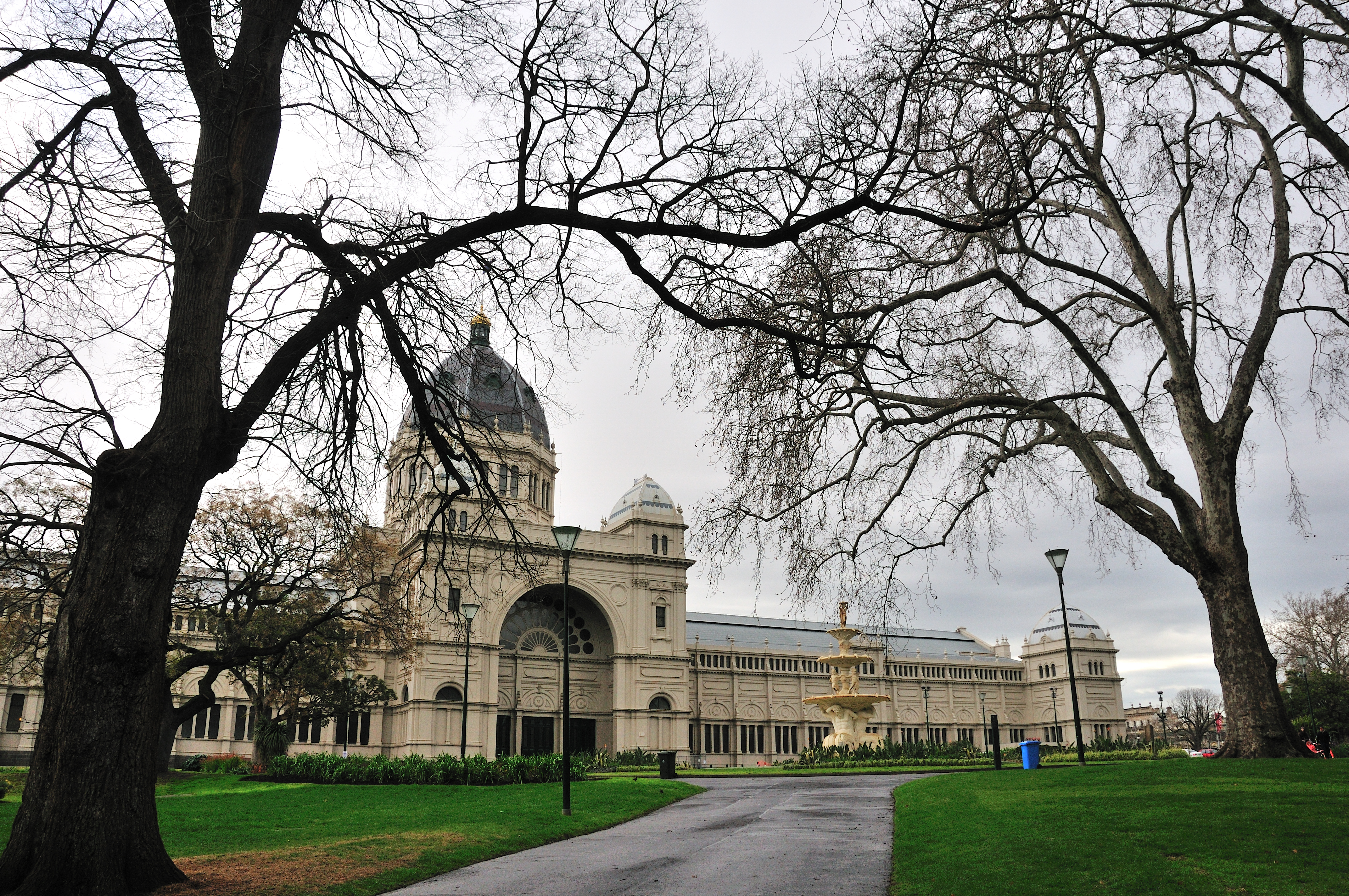 Royal Exhibition Building and Carlton Gardens, Melbourne, Australia